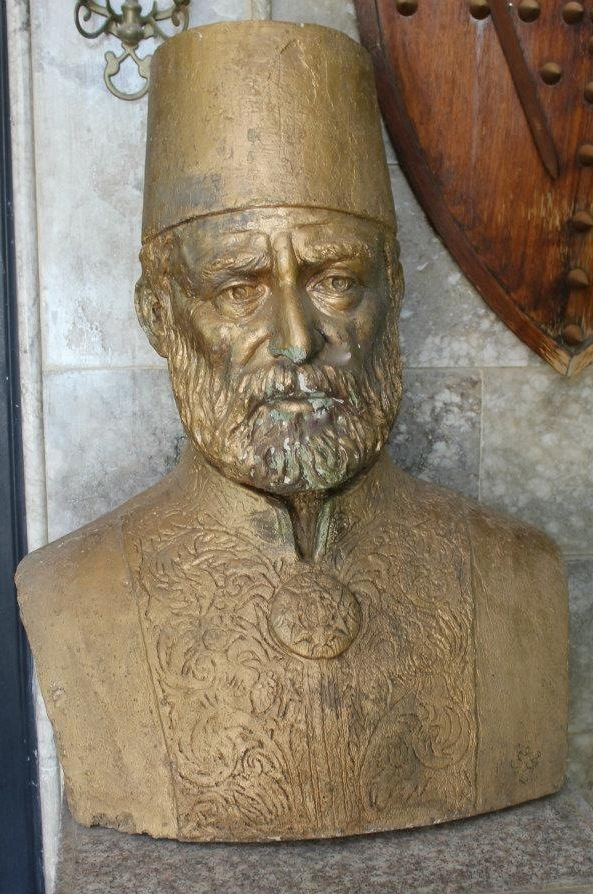 Mohamed Pasha Jaff, Kurdish King